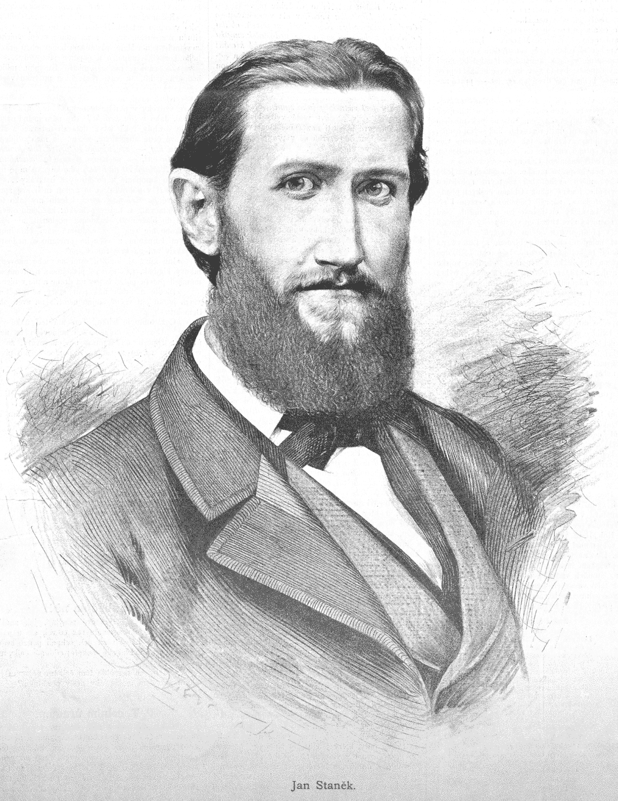 Portrait of Jan Staněk, known as Ivan Bohdan Staněk (1828-1868), Czech chemist, journalist and poet